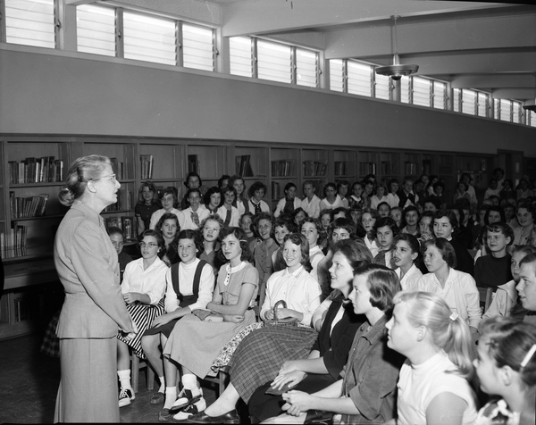 Rosamond Du Jardin speaking to students at Elizabeth Cobb Jr. High School in Tallahassee.